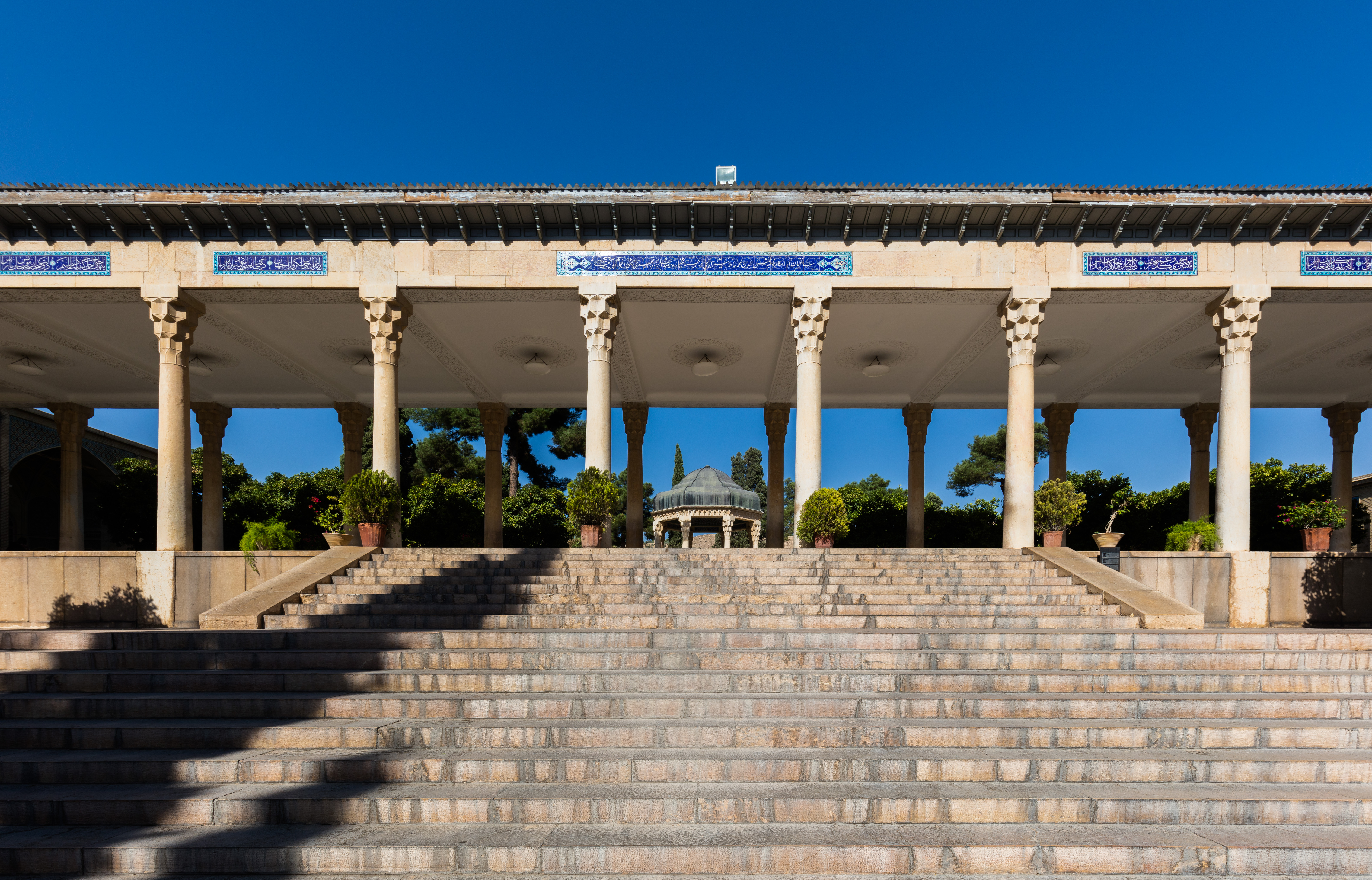 Mausoleum of Hafez, Shiraz, Iran